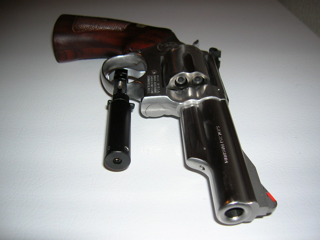 Smith & Wesson .357 Magnum equipped with laser sight.